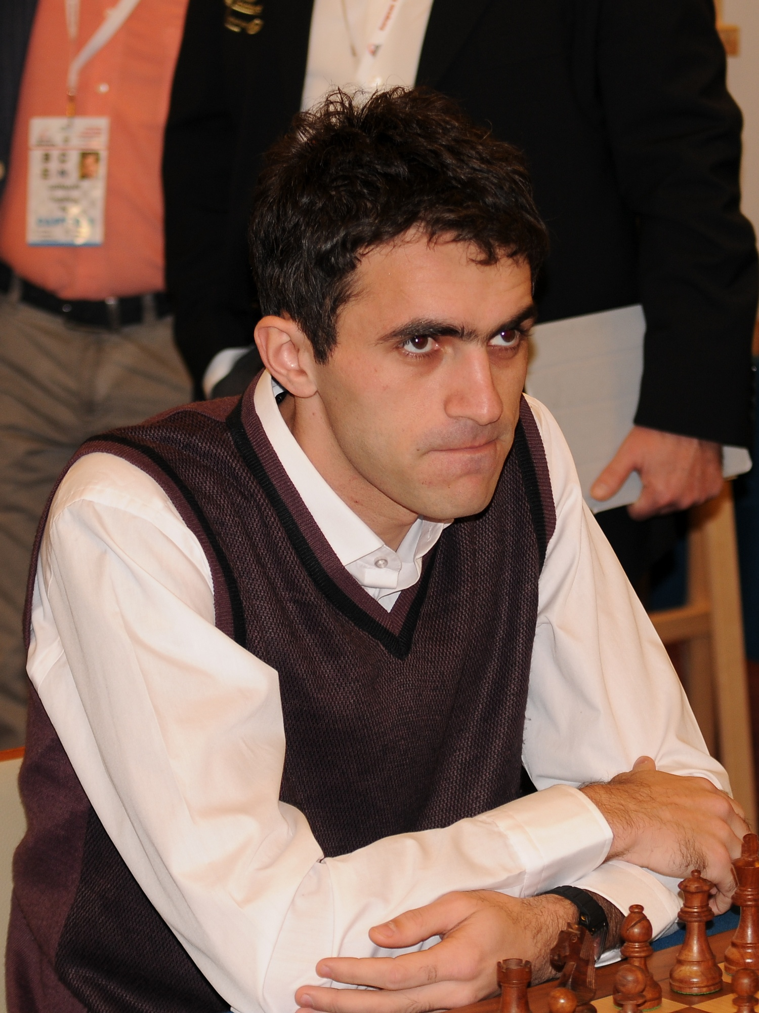 IM Gaioz Nigalidze, European Chess Team Championship Warsaw 2013